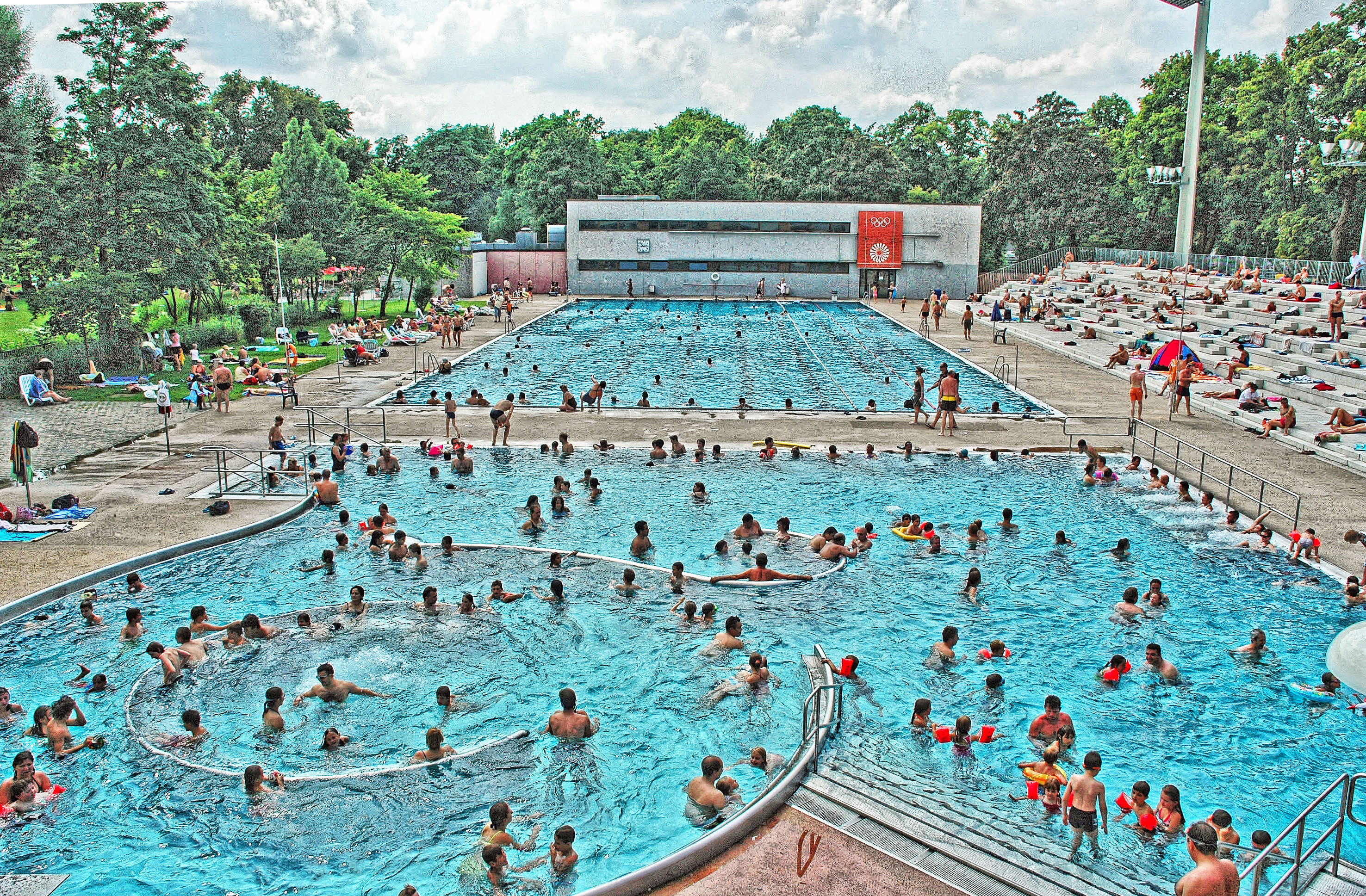 Munich Dante-Bad (Pool)